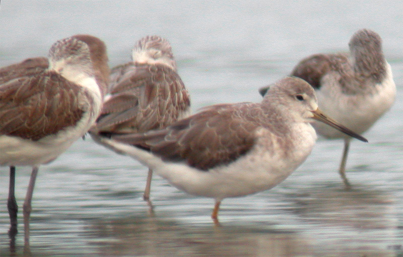 Photographed on 26/12/2006 at Kapar Power Station Ash Pond, Selangor State, Malaysia. Featured in centre is the Spotted (Nordmann's) Greenshank (Tringa guttifer) in non-breeding plumage. It is surrounded by closely related Common Greenshanks (Tringa nebularia). Note the subtle but consistant differences between these 2 species particularly in head and upperparts.